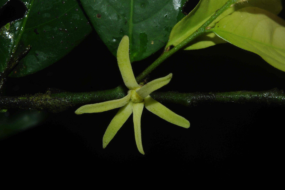 Greenwayodendron suaveolens (Annonaceae) from the Dja Faunal Reserve. Photo: TLP Couvreur.